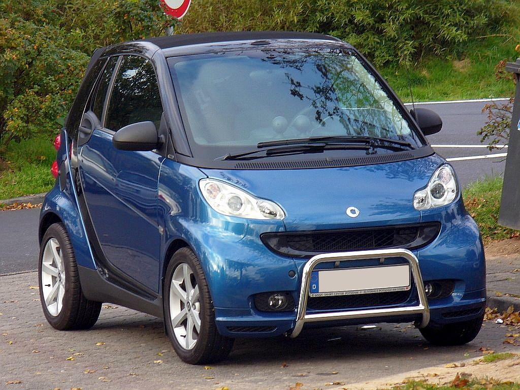 Smart Fortwo II Cabrio